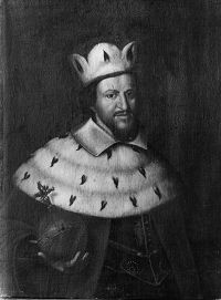 Frederick IV from [1]